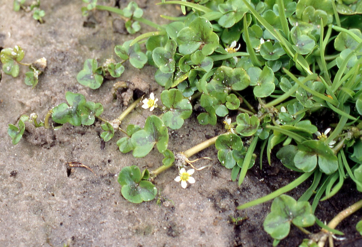 Plant of Ranunculus hederaceus (Ranunculaceae).